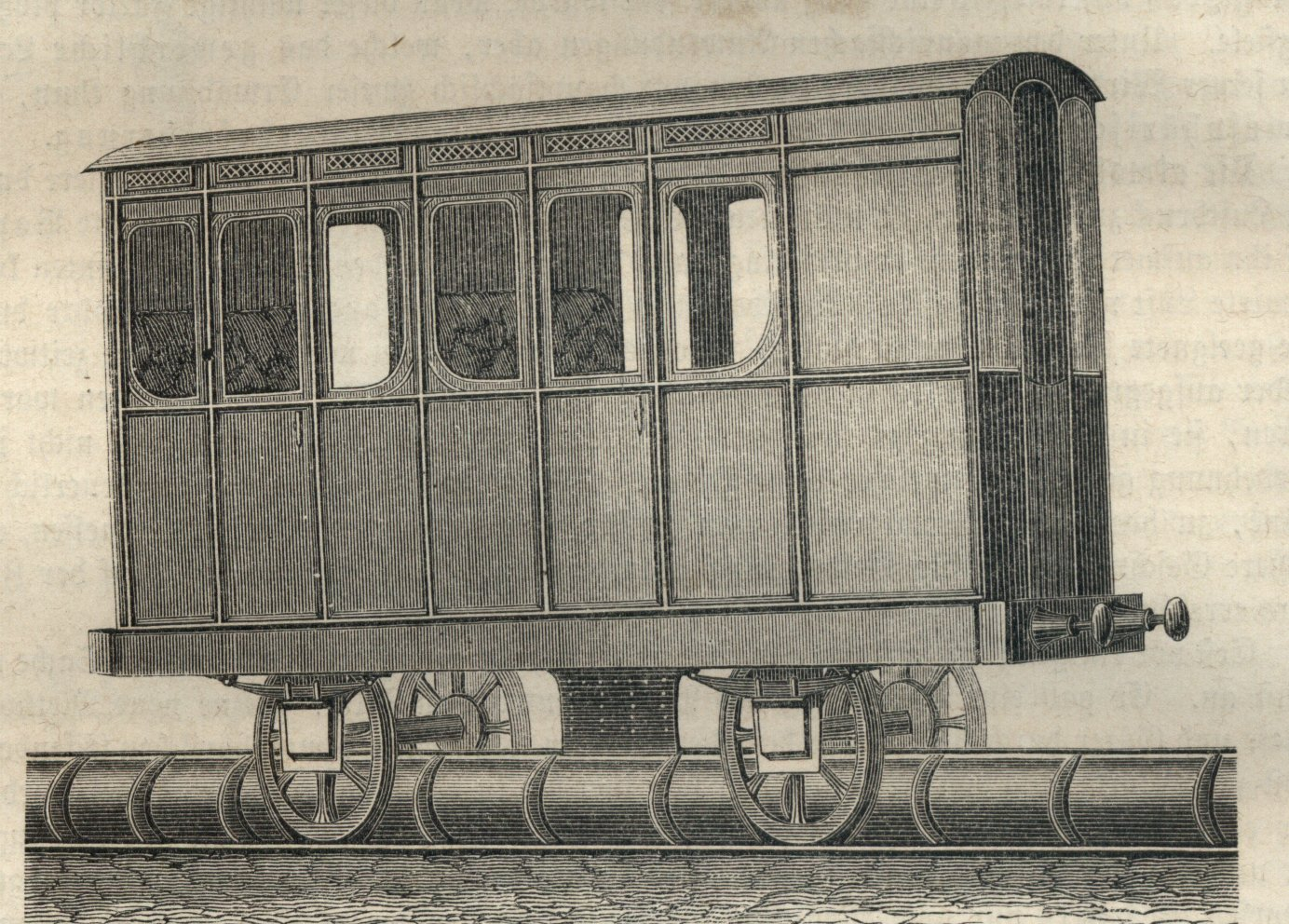 atmospheric railway in St. Germain, France